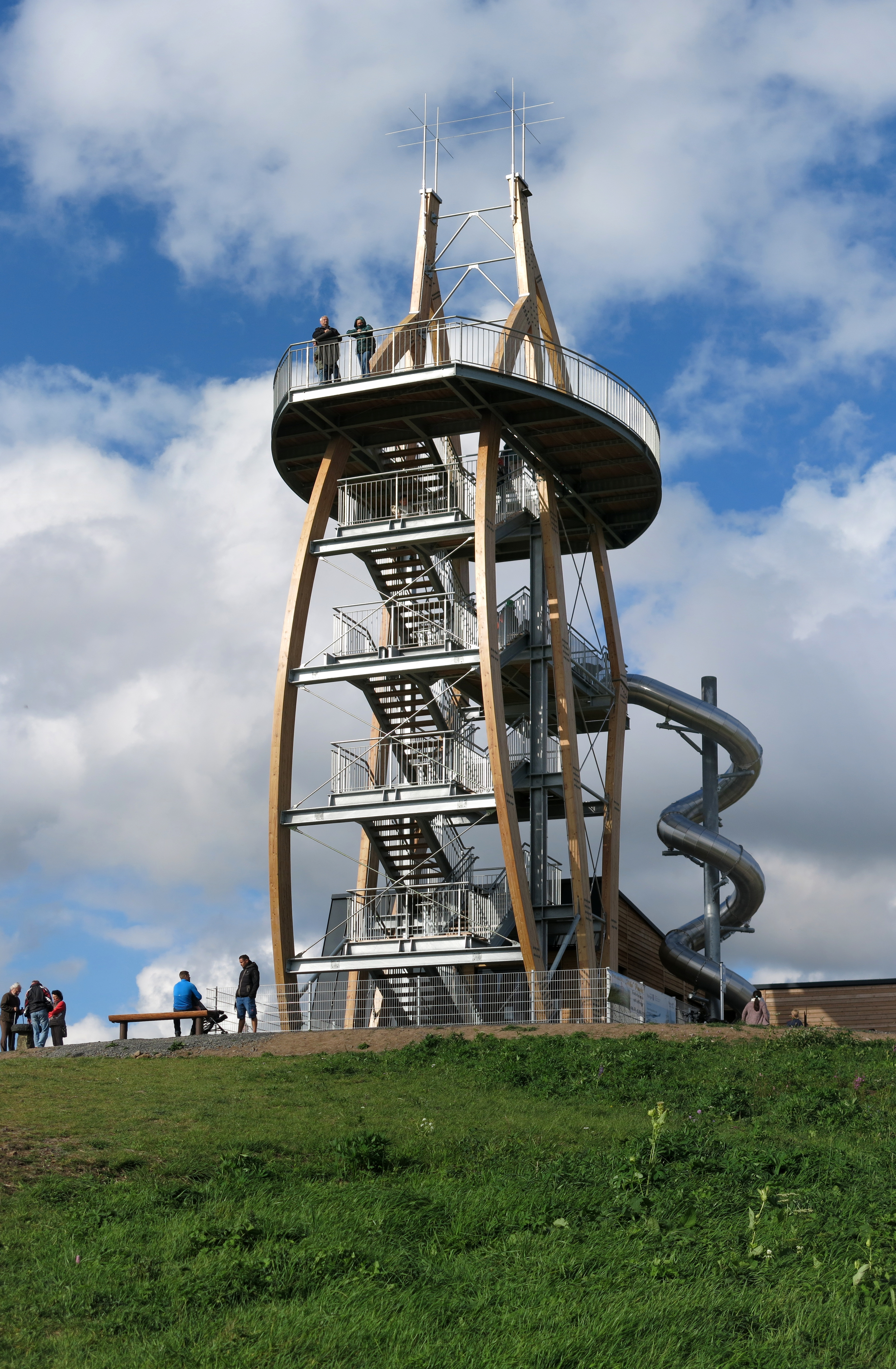 The lookout tower Noahs Segel on the Ellenbogen in the Rhön Mountains. Panoramic view from the top on